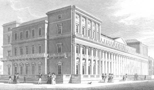 The East Wing of Carlton House Terrace in London. This drawing was made by Joseph Nash in 1831, soon after the building was completed.